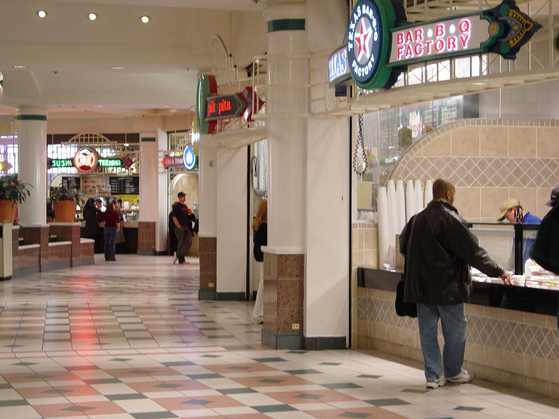 Food court at Pentagon City Mall in Arlington, Virginia. Stores shown are Kabuki Sushi, Sala Thai, McDonald's, Pik-A-Pita, and Texas BBQ Factory.